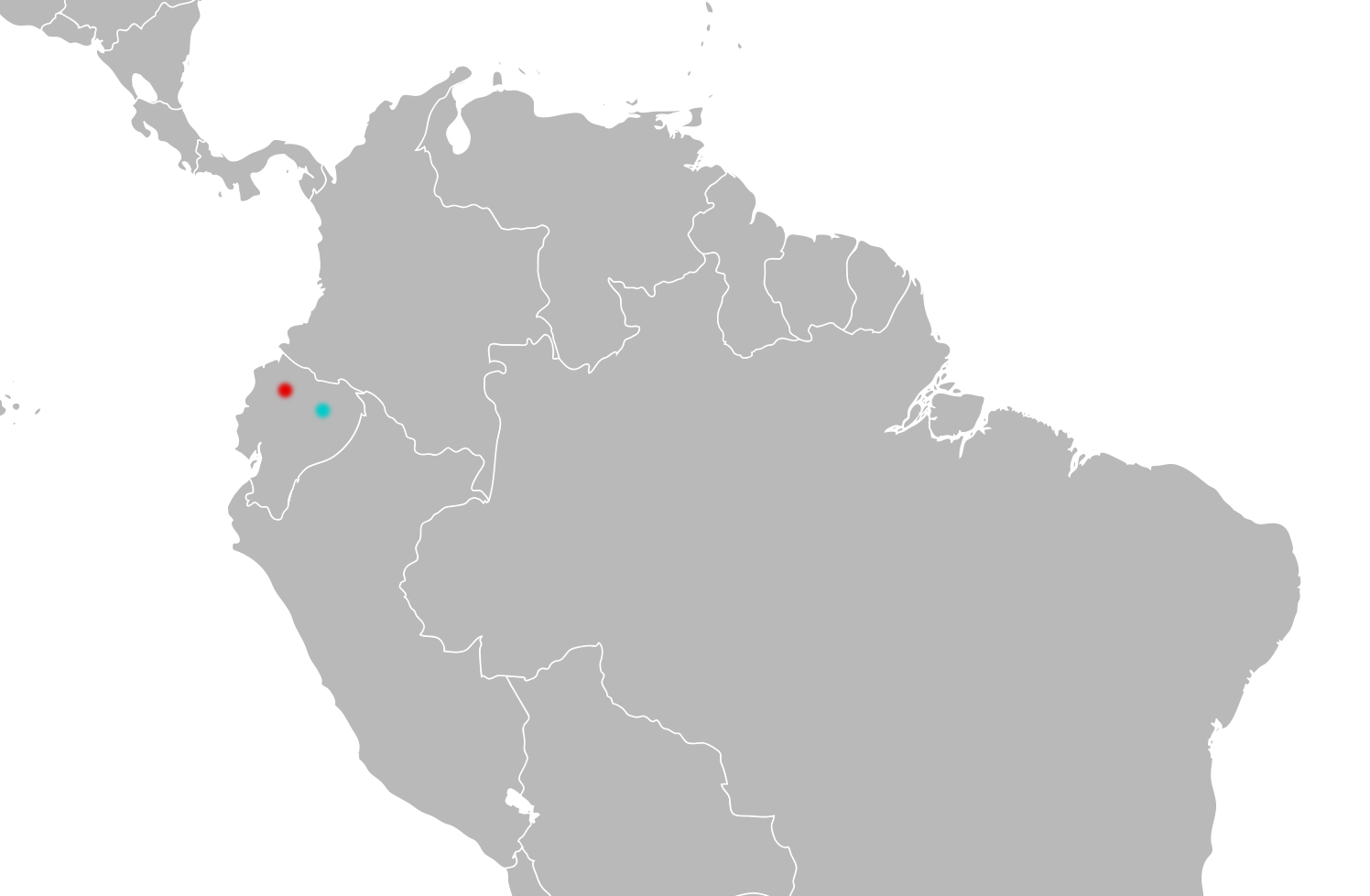 Distribution of Mindomys in northern South America. Red, Mindo, type locality; green, Concepcion, dubious locality.